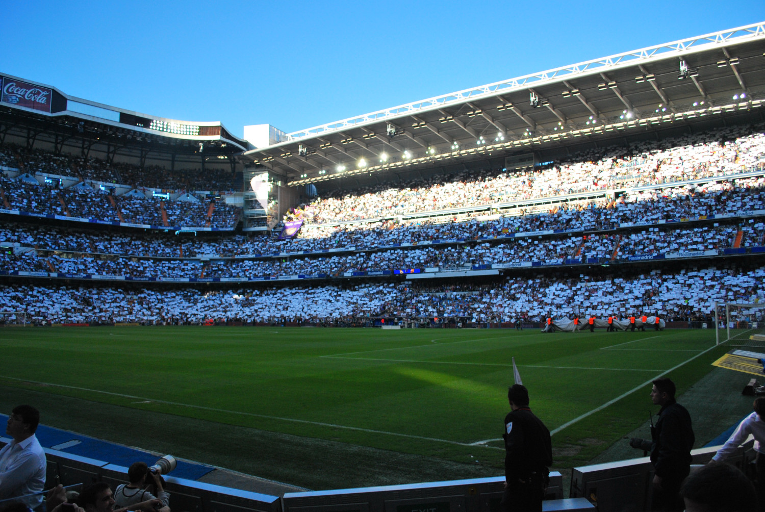 Real Madrid - Barça